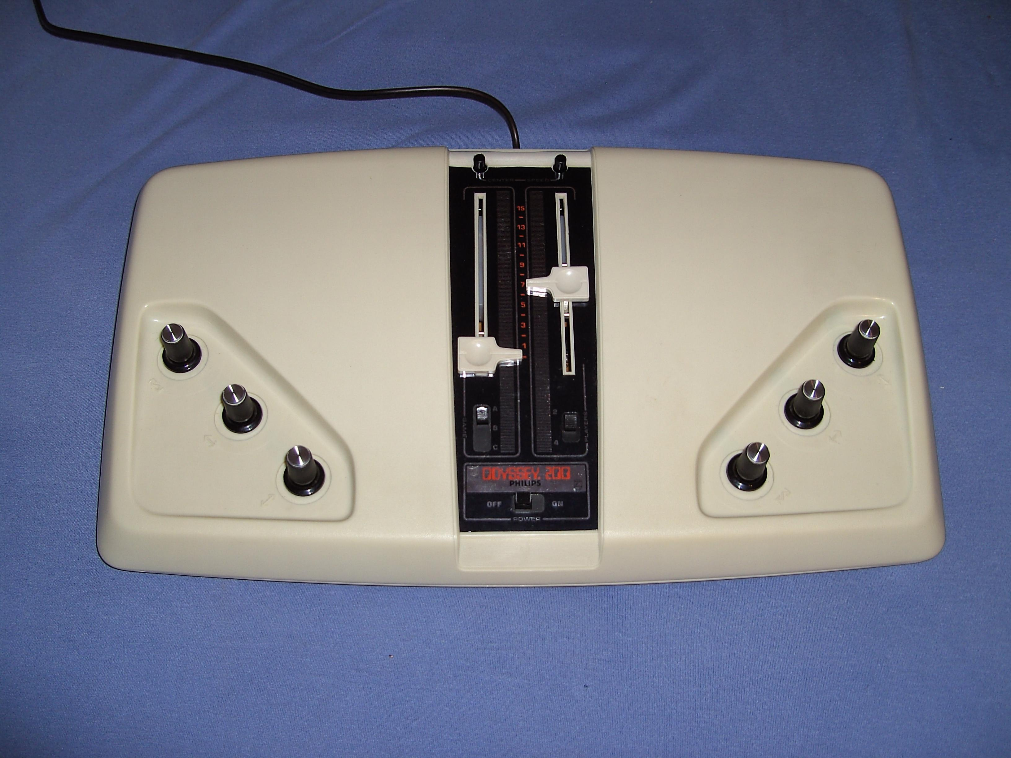 European version of the Magnavox ODYSSEY 200 under the Philips brand.